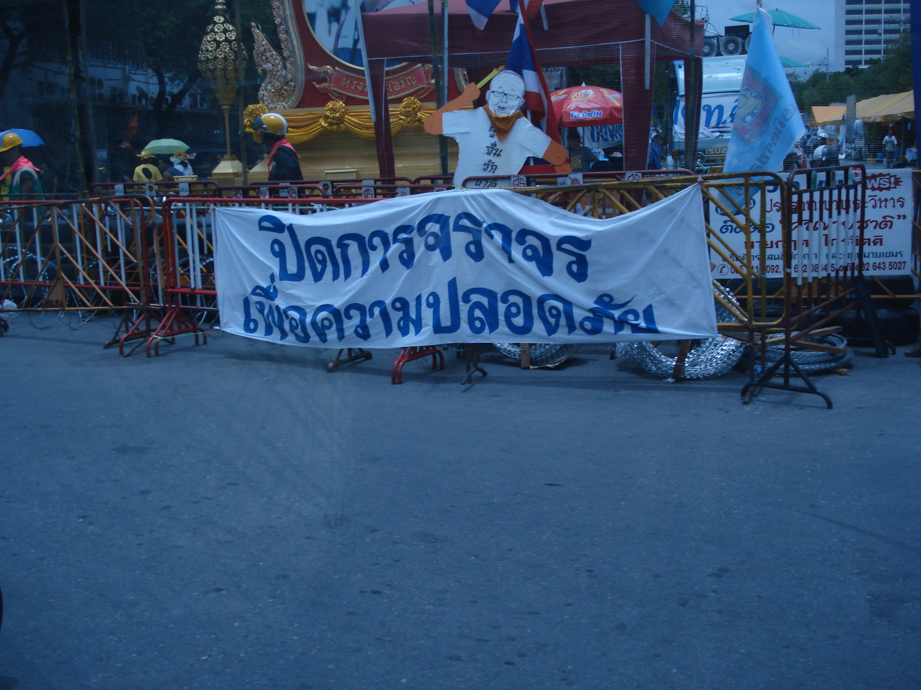 protesters nearby the seat of Thai government